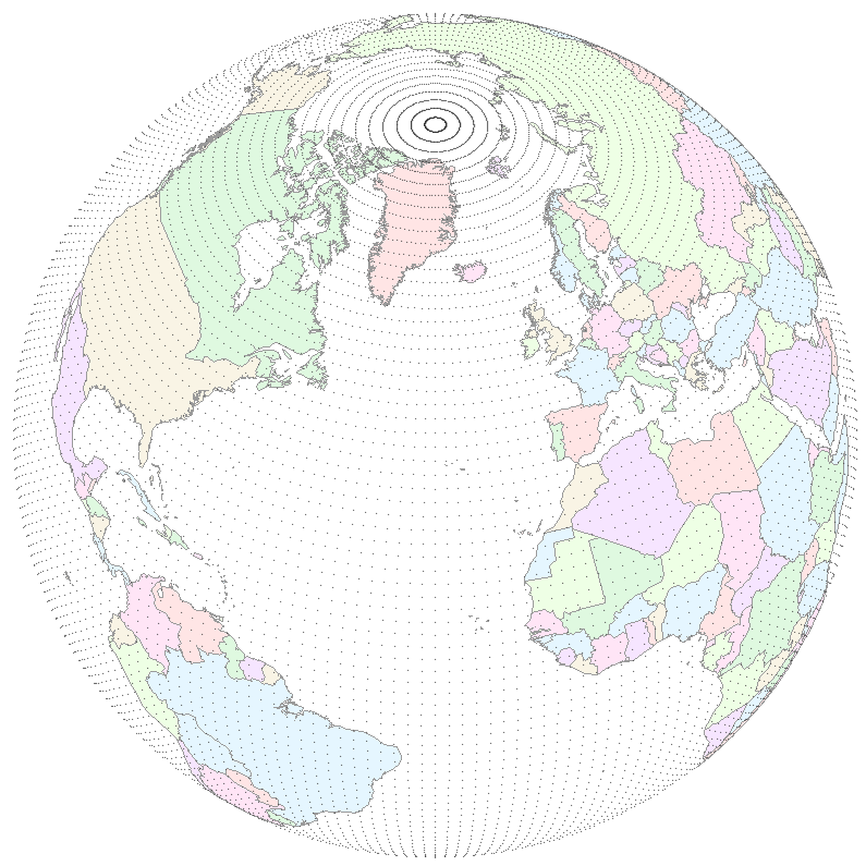 NCEP/NCAR T62 gaussian grid with 192 longitude equally spaced and 94 latitude unequally spaced grid points. Specifications of the grid geometry are found here.